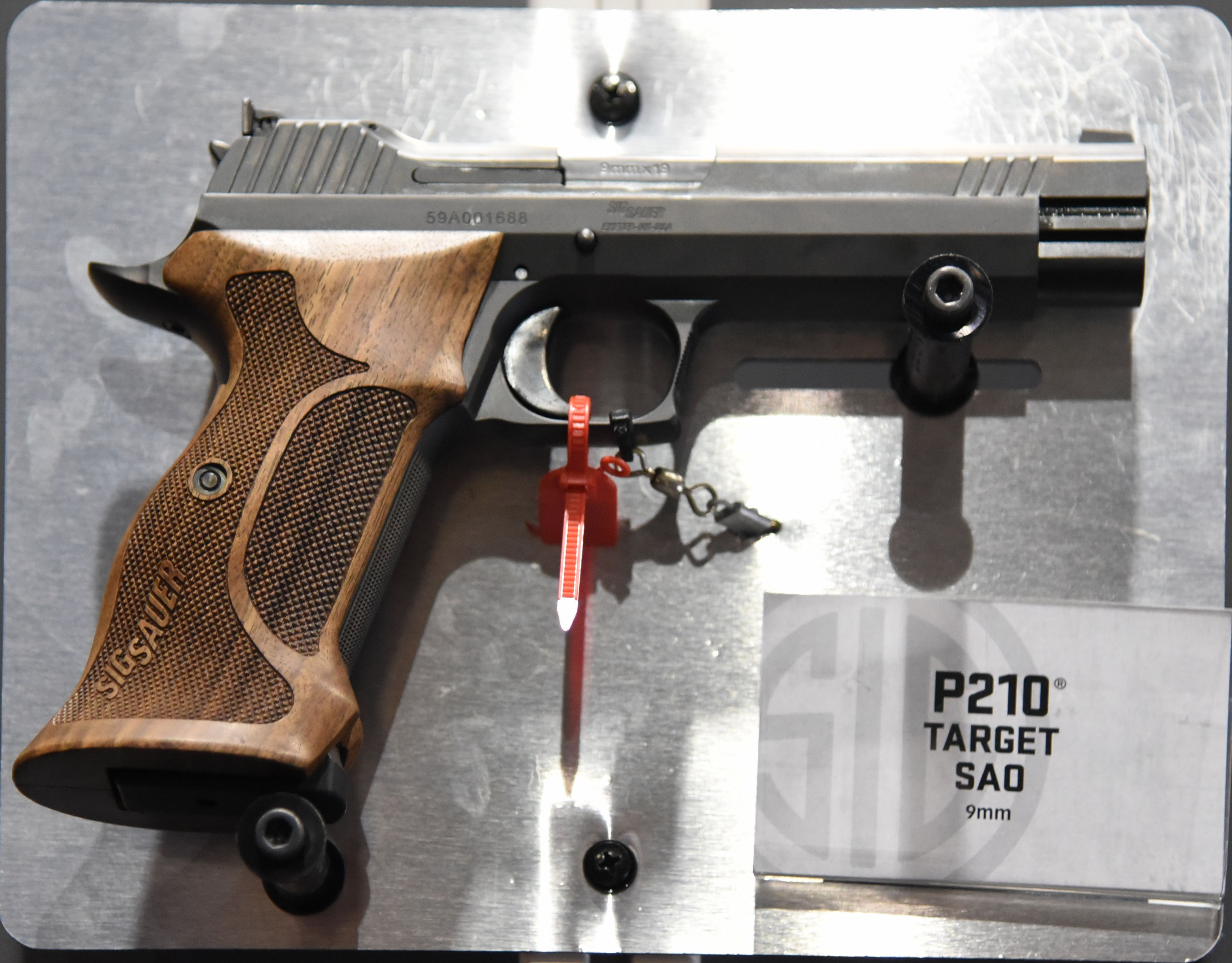 A Sig Sauer P210 model taken at the Great American Outdoor Show in Harrisburg, PA, USA, Made in Exeter, NH, USA